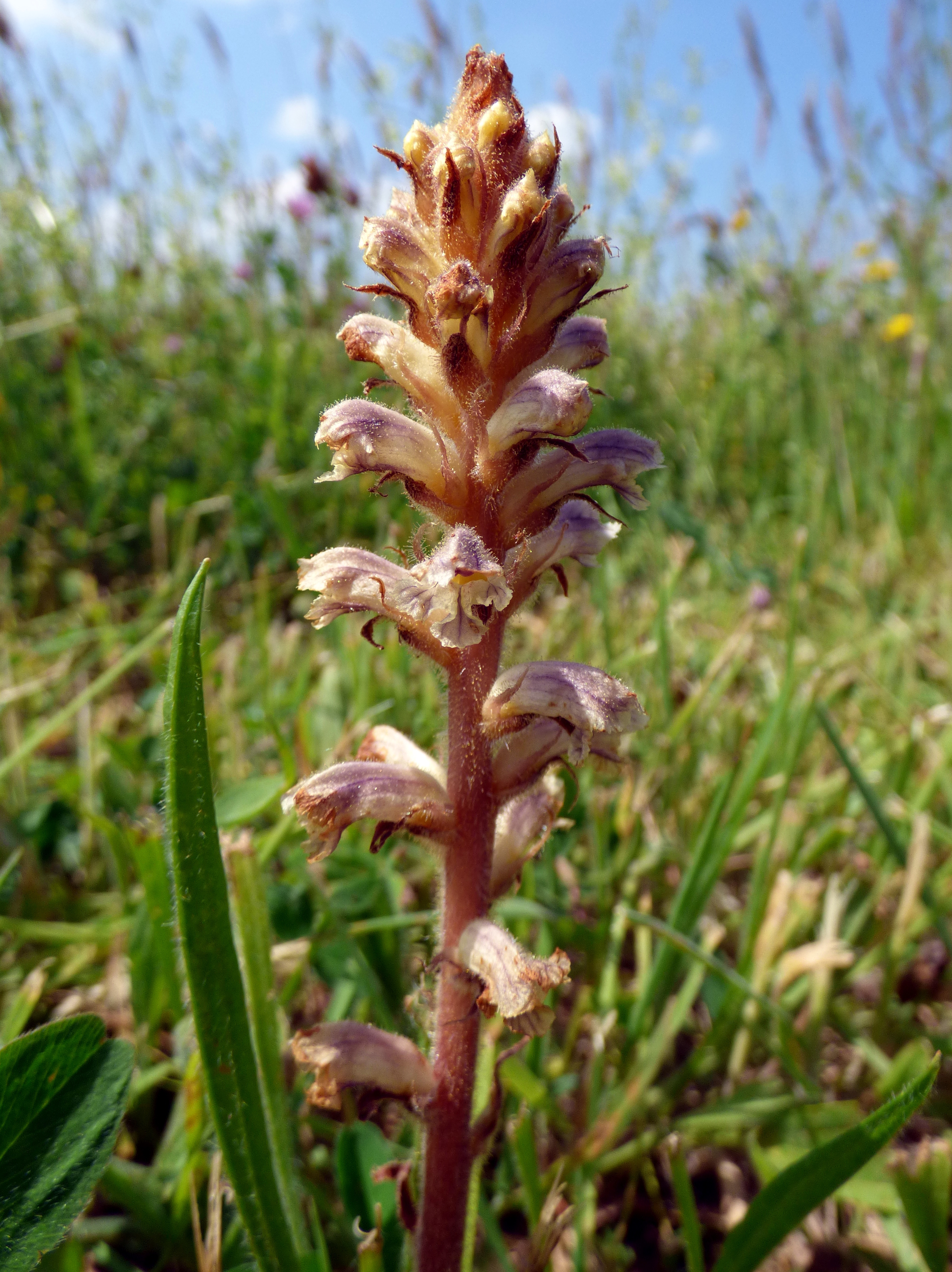 Common broomrape (Orobanche minor), Heartwood Forest, Sandridge, Hertfordshire, 18 June 2017.